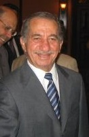 Rabbi Arie Zeev Raskin meets the last President of Cyprus Mr Tassos Papadopoulos